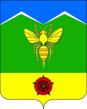 Coat of arms of Sladki (Labinsk Raion, Krasnodar Krai, Russia)